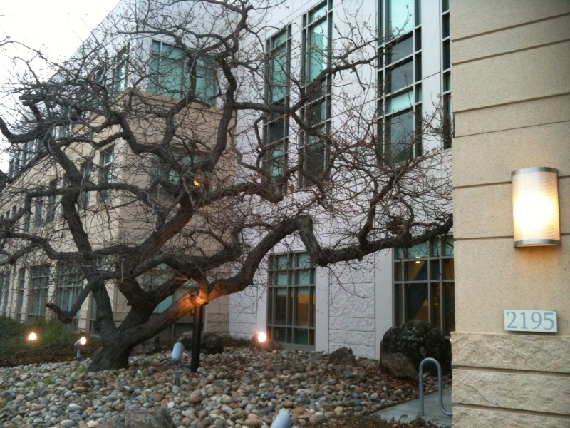 The Earl Warren Hall at Berkeley was designed to architecturally accommodate this Mongolian Oak.